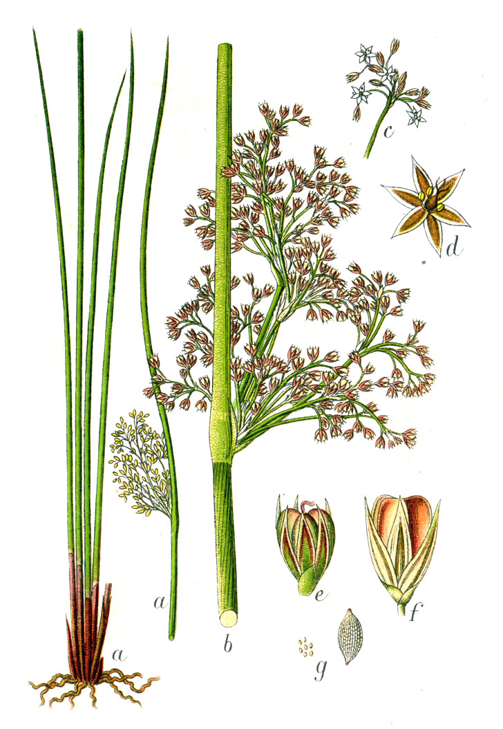 Juncus effusus L. Original Caption Lockerblütige Binse, Juncus effusus